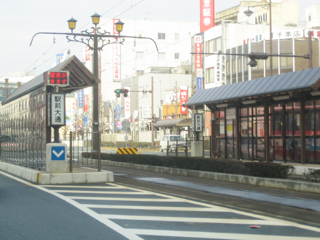 Ekimae-Odoori Tram Stop on the Toyohashi Rail Road City Line in Toyohashi City, Aichi Prefecture, Japan